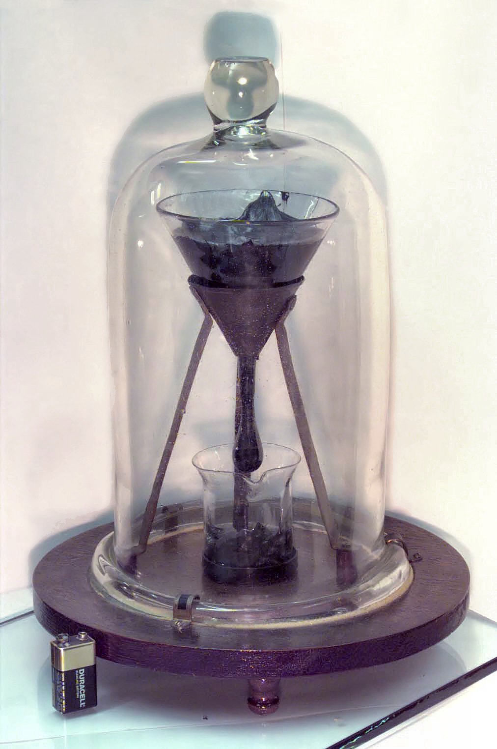 Picture of the Pitch Drop Experiment at the University of Queensland, with 9-volt battery for size comparison